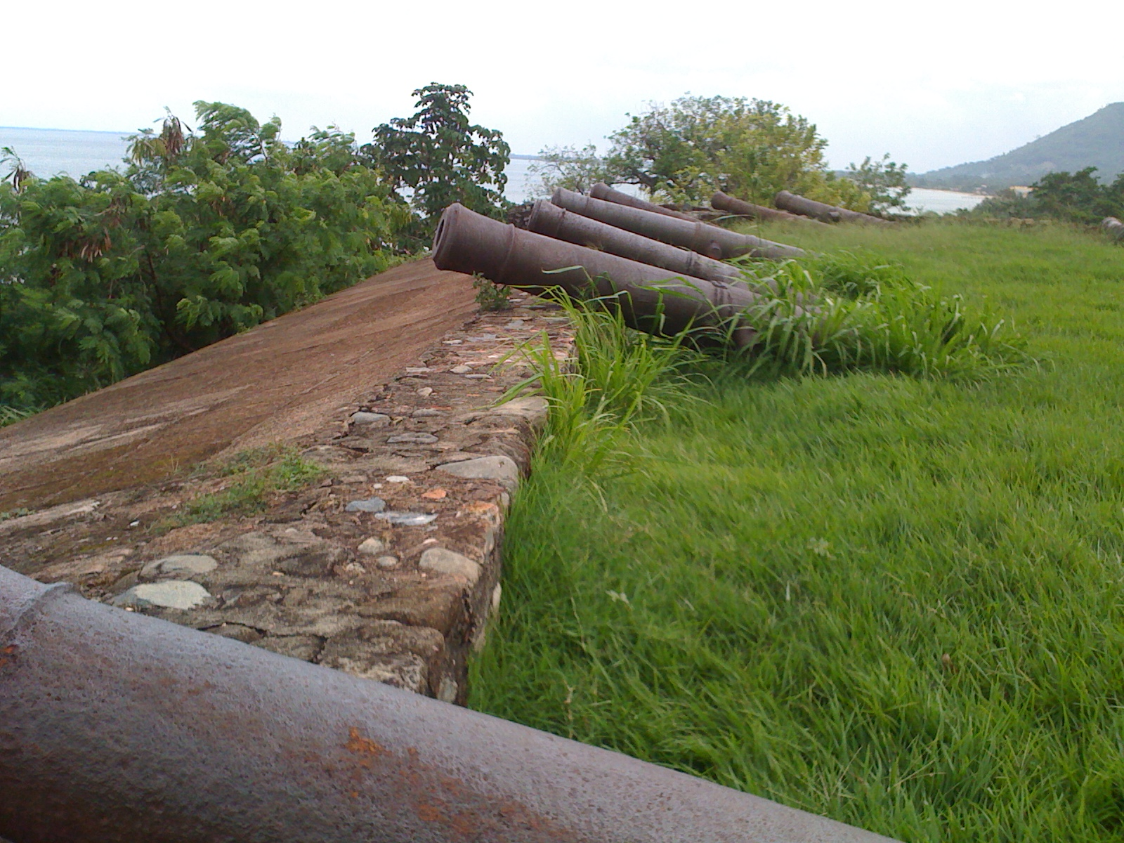 CAÑONES FORTALEZA SANTA BARBARA